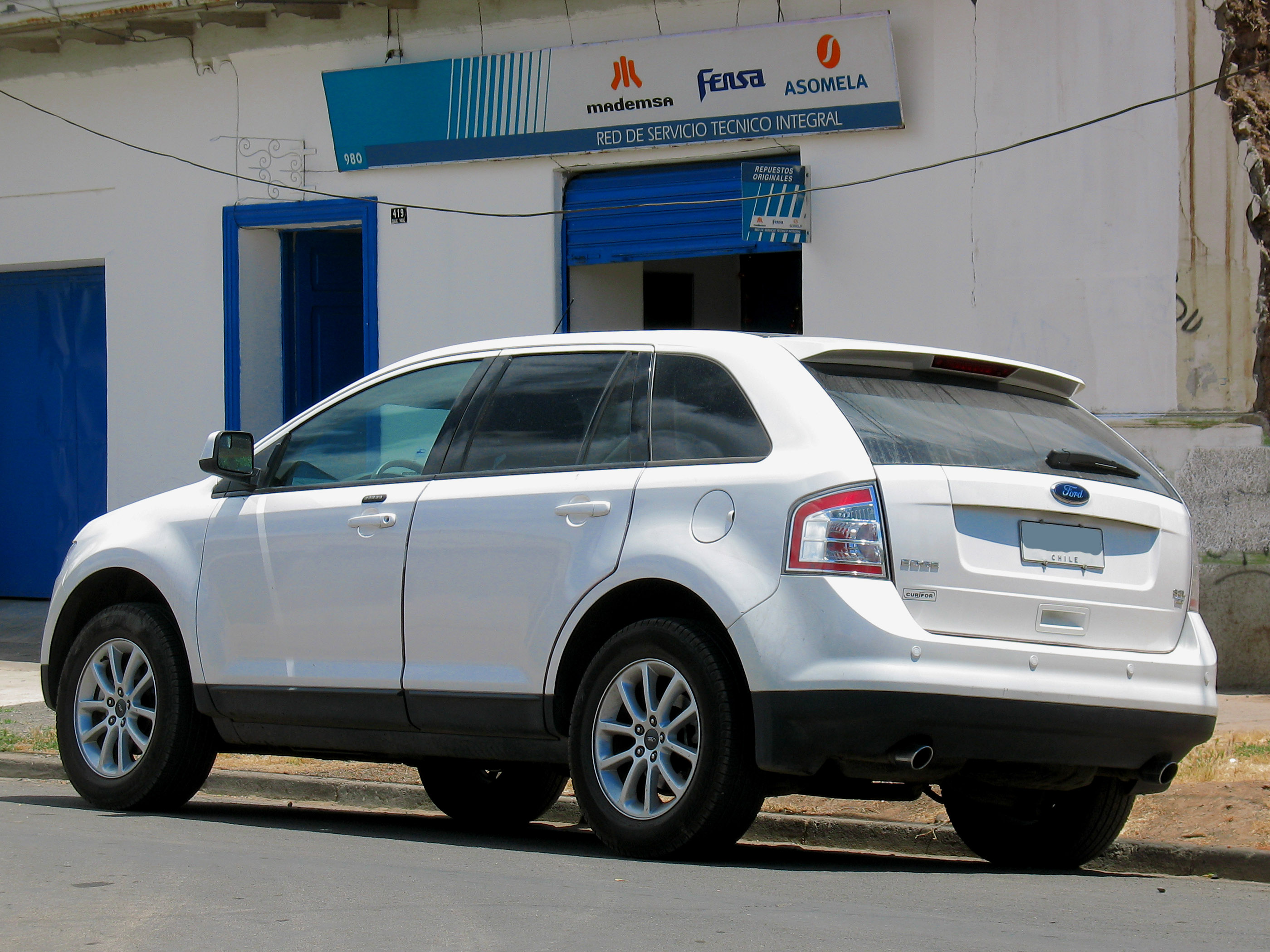 Ford Edge SEL AWD 2010